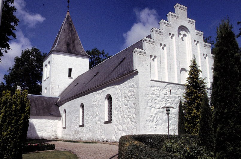 Diernæs Church in Faaborg-Midtfyn Kommune from apr. 1100